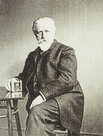 Ottomar Anschütz (1846-1907) presenting his camera with a focal-plane shutter